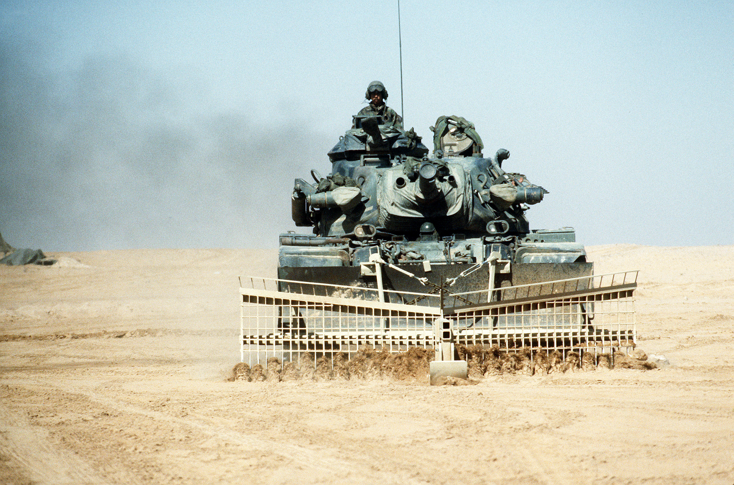 Members of the 72nd Engineering Company, 24th Infantry Division, test a mine-clearing rake attached to an M-728 COMBAT ENGINEER VEHICLE during Operation Desert Storm.